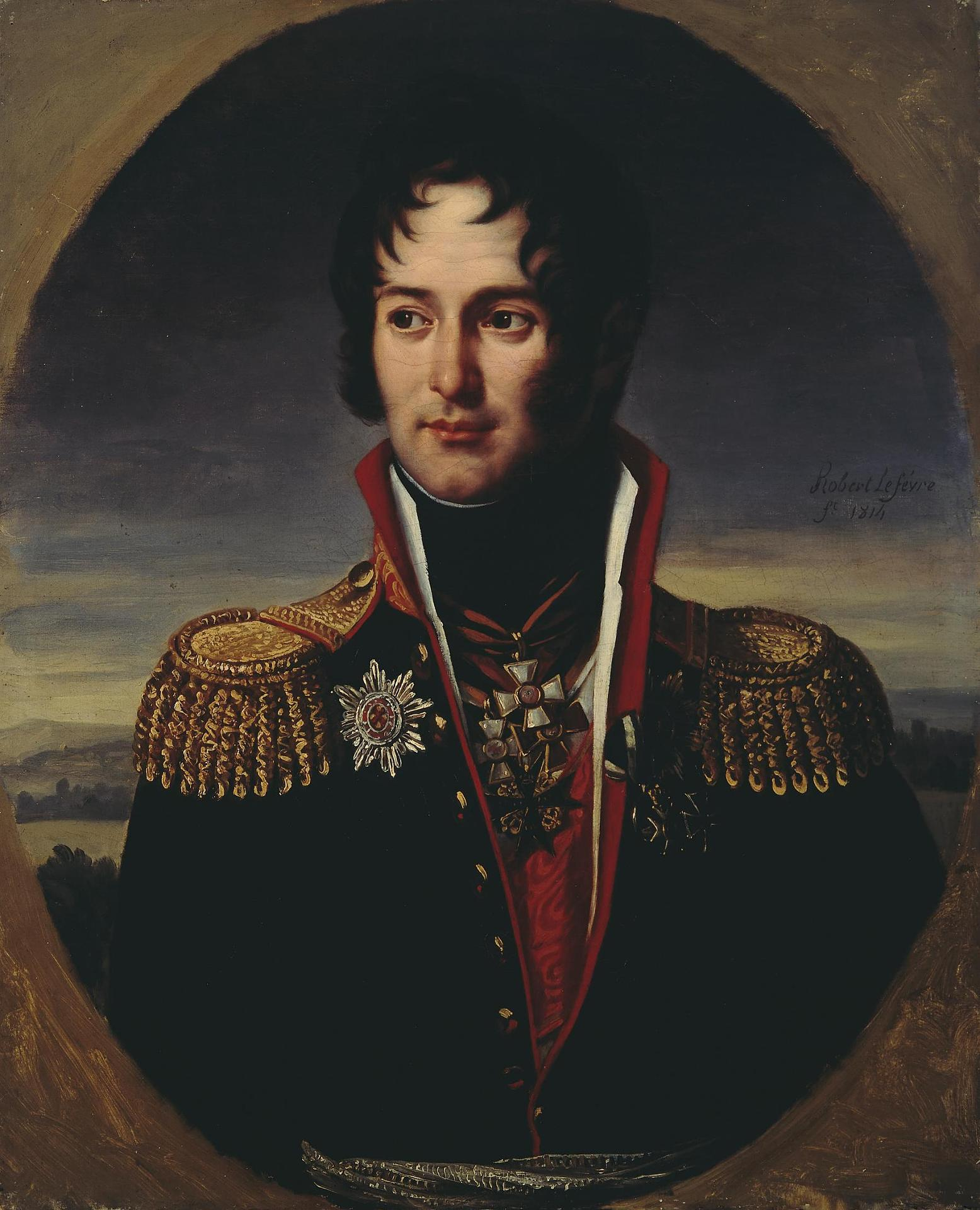 Pyotr Alexandrovich Chicherin 2-nd (10.02.1778 – 27.12.1848) russian general of the cavalry and general-adyutant.